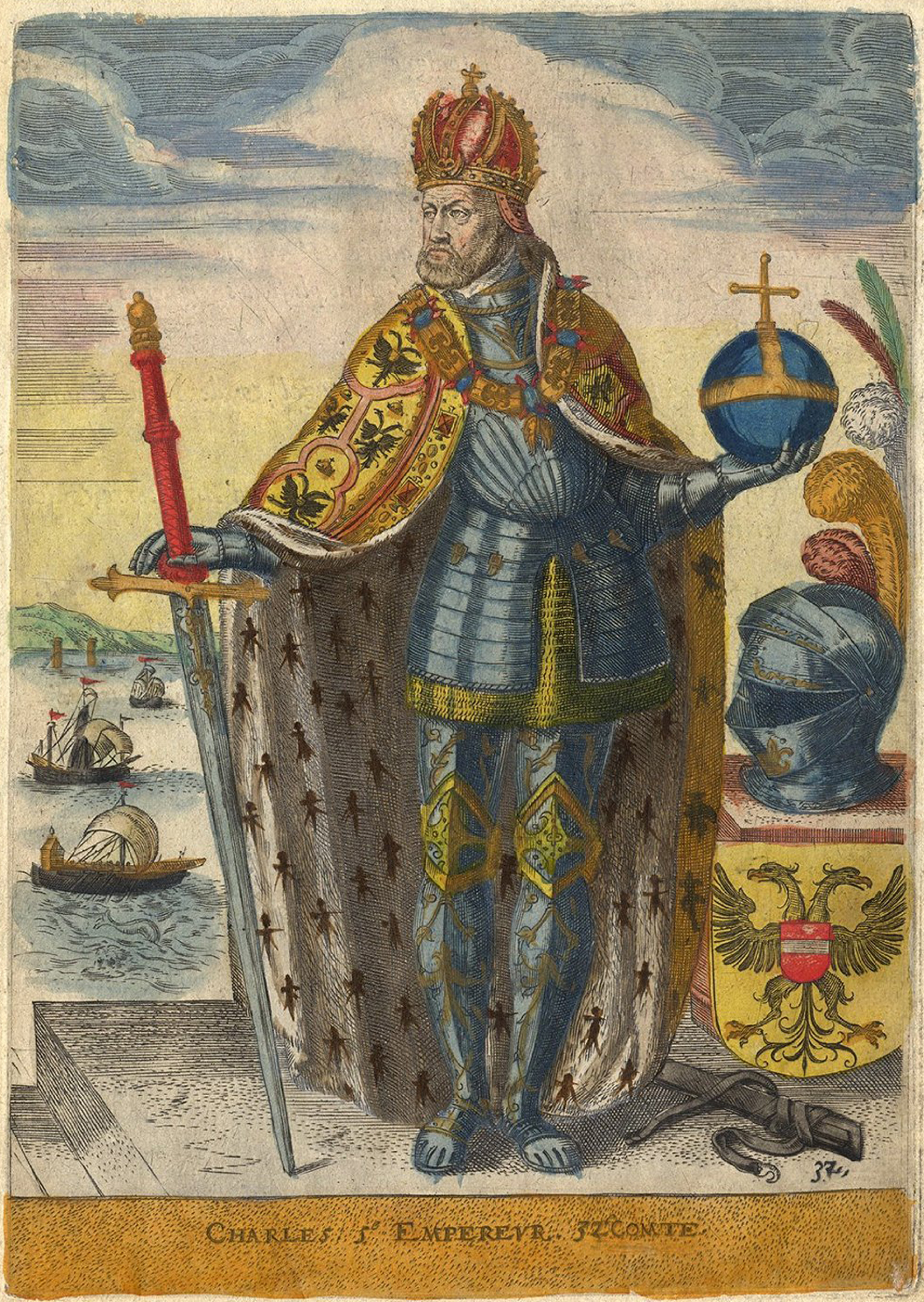 Charles V, Holy Roman Emperor